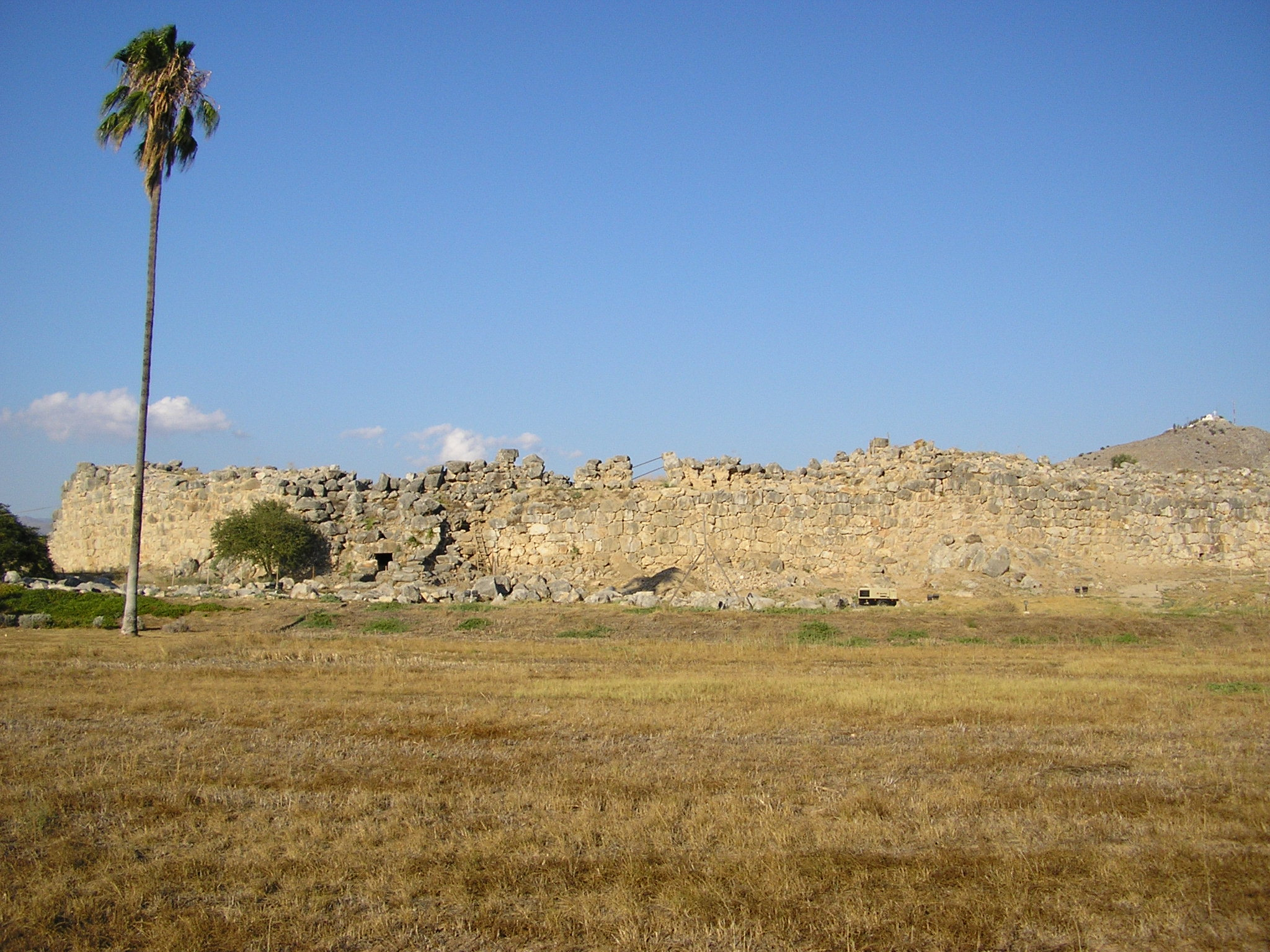 General View of Tiryns in Greece.